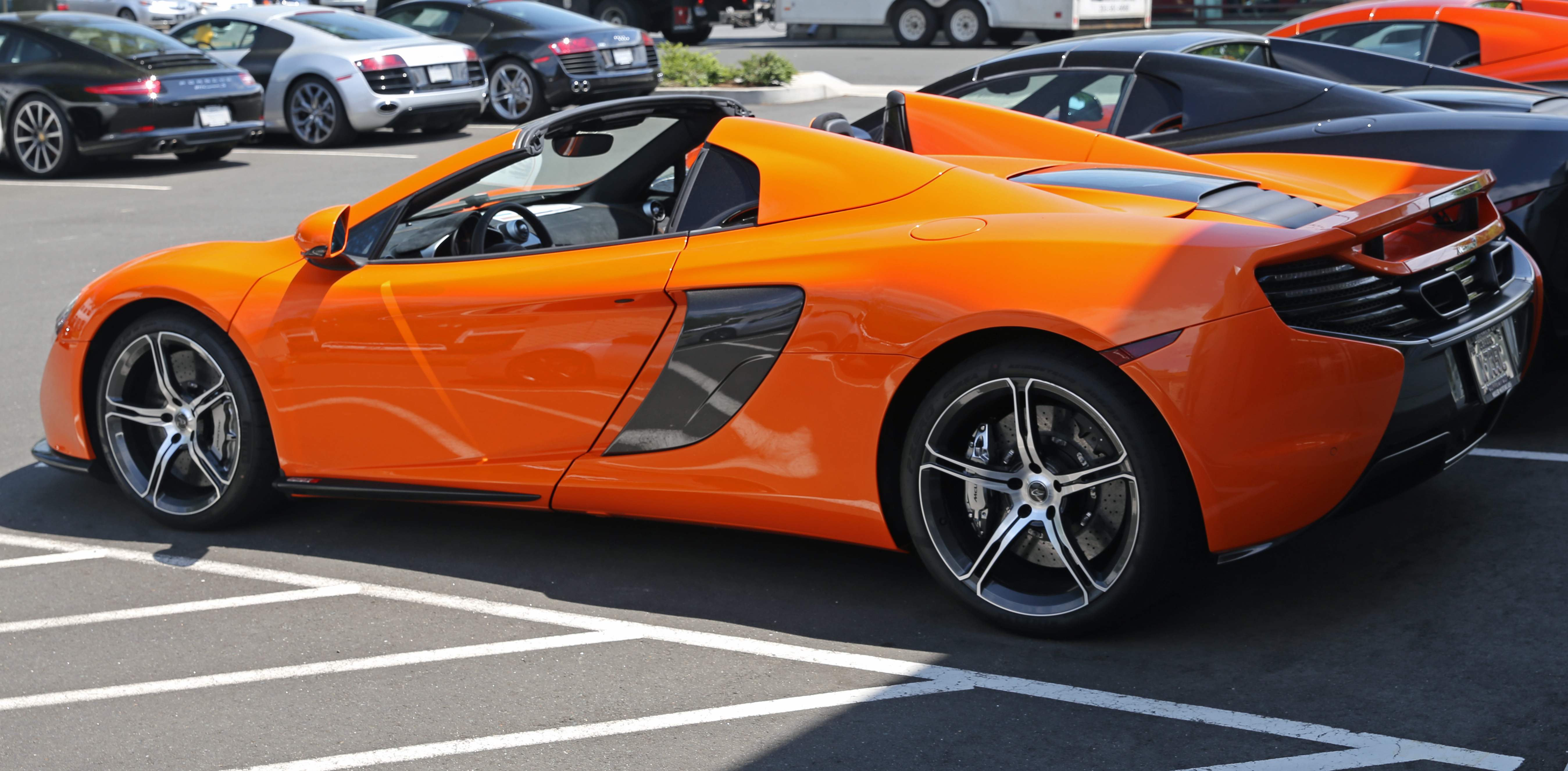 A 2015 McLaren 650S Spider with the full Carbon Fiber appearance pack, in Tarocco Orange.